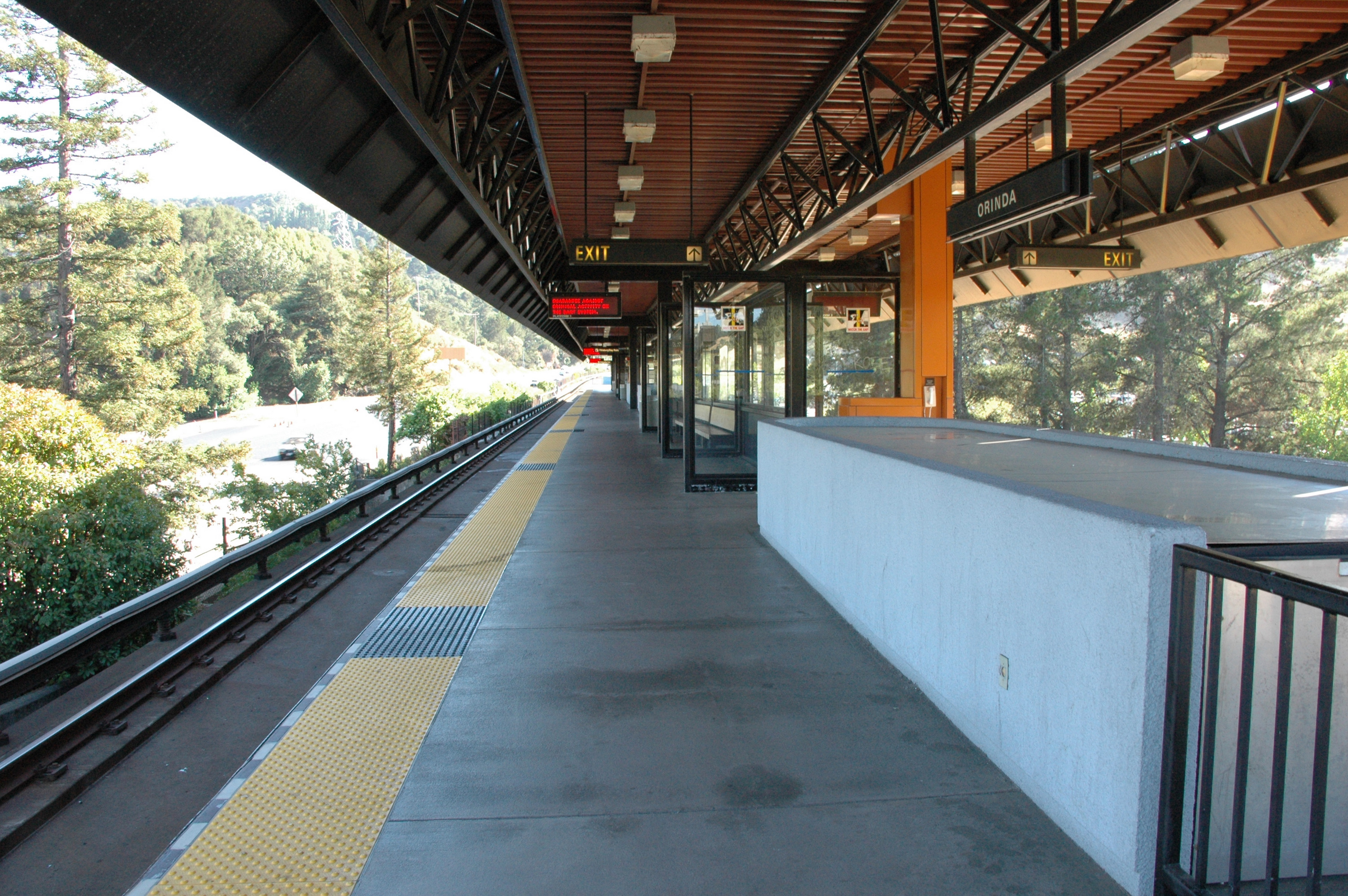 The BART system